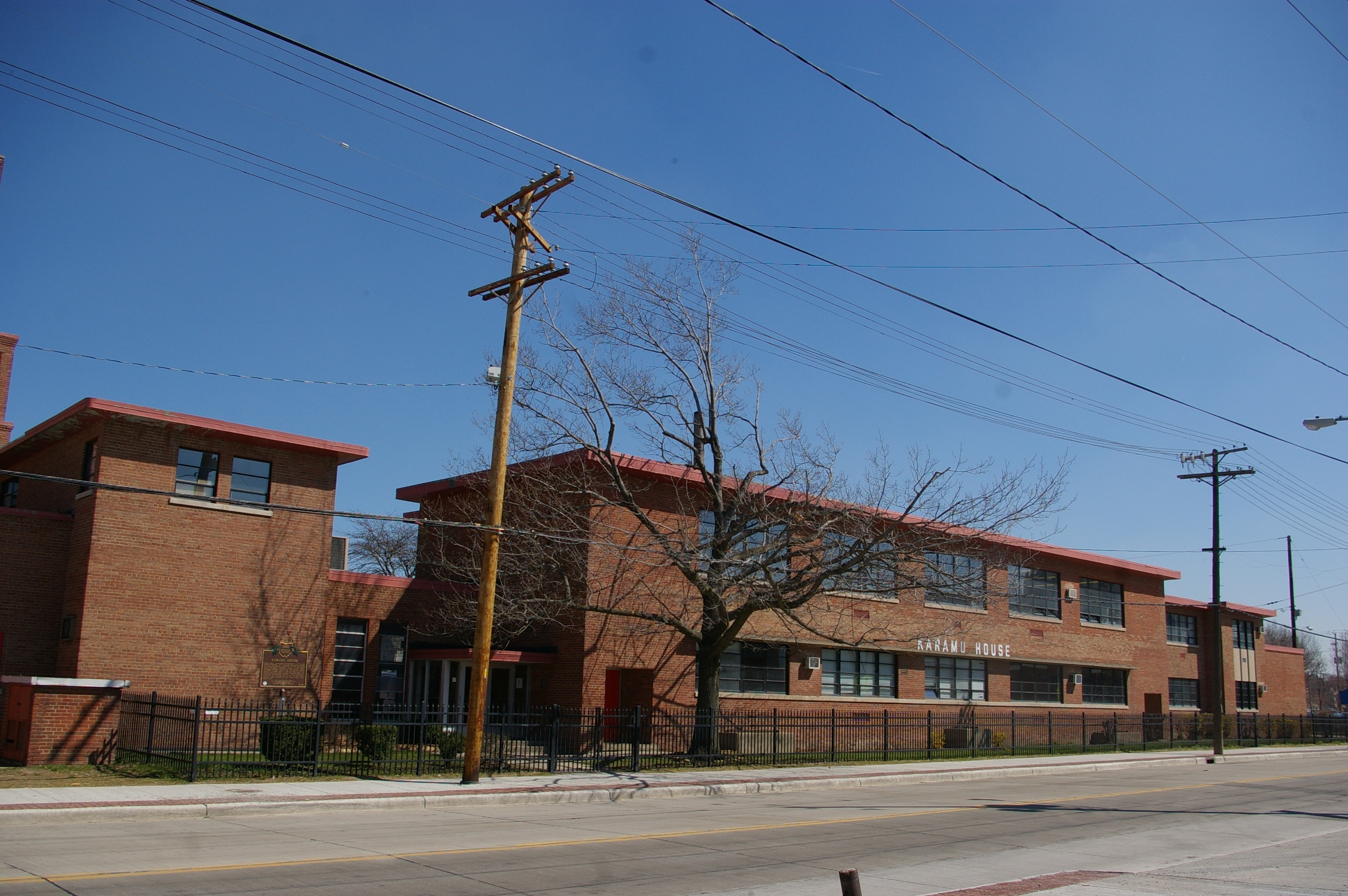 A view of Karamu House at 2355 East 89th Street, in Cleveland, Ohio. The structure, built in 1952, was designed by Small, Smith, Reeb, Draz, architects and is listed on the National Register of Historic Places.